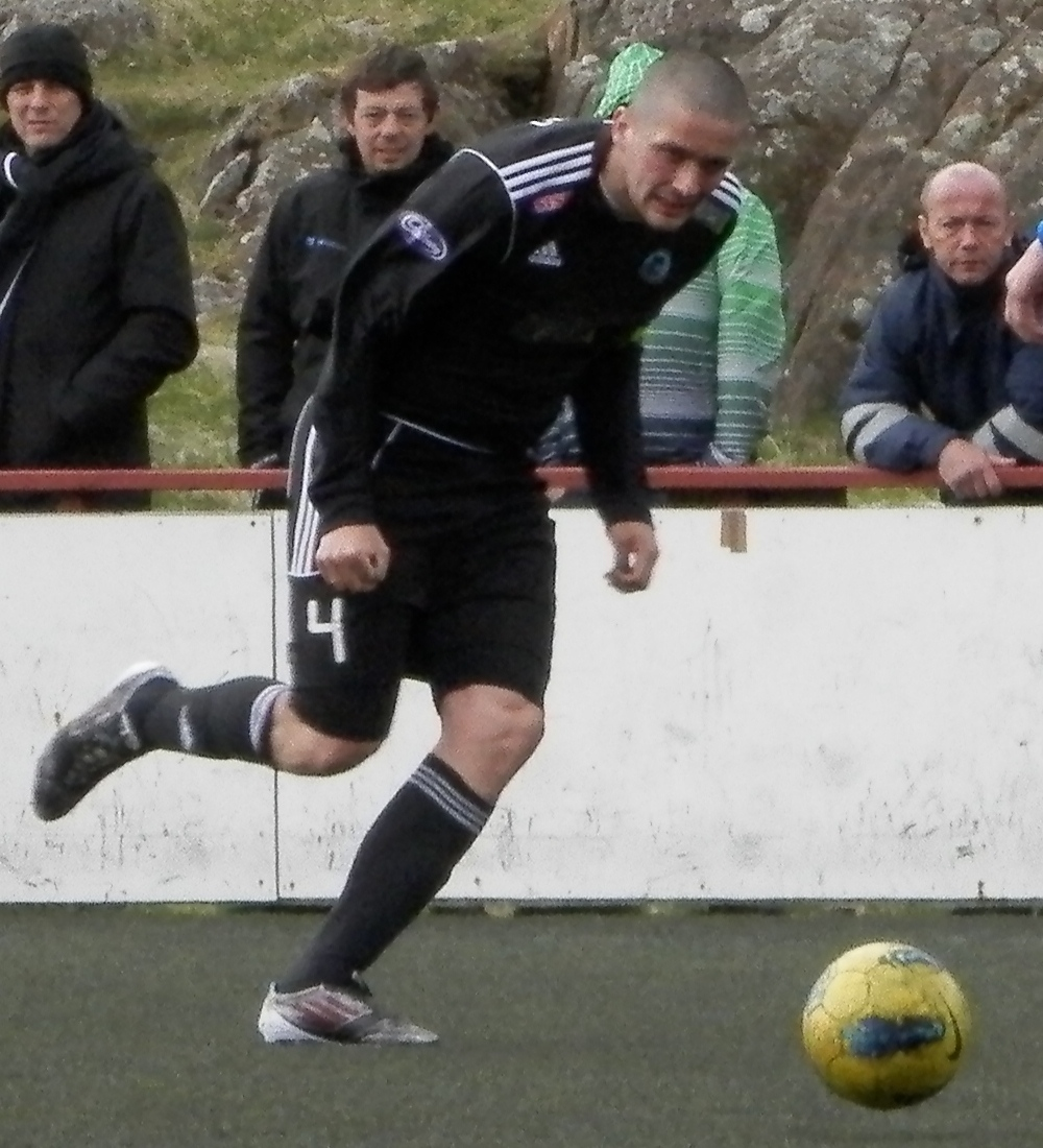 Atli Gregersen is a Faroese football player, a defender, who currently (2012) plays for Víkingur Gøta and the Faroe Islands natioal football team.Føroyskt: Atli Gregersen er ein føroyskur fótbóltsleikari, sum í løtuni (2012) spælir við Víkingi og við føroyska landsliðnum.